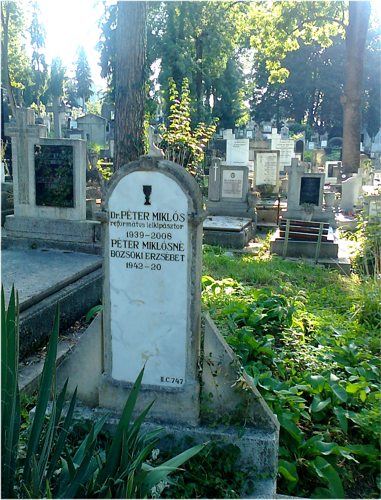 Grave of Miklós Péter (1939-2008) Church Historian